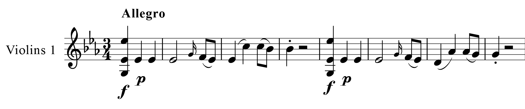 Joseph Haydn, Symphony No. 43, first movement, bar 1-8